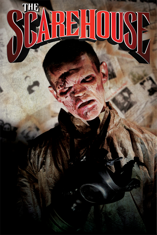 ScareHouse hazmat zombie.